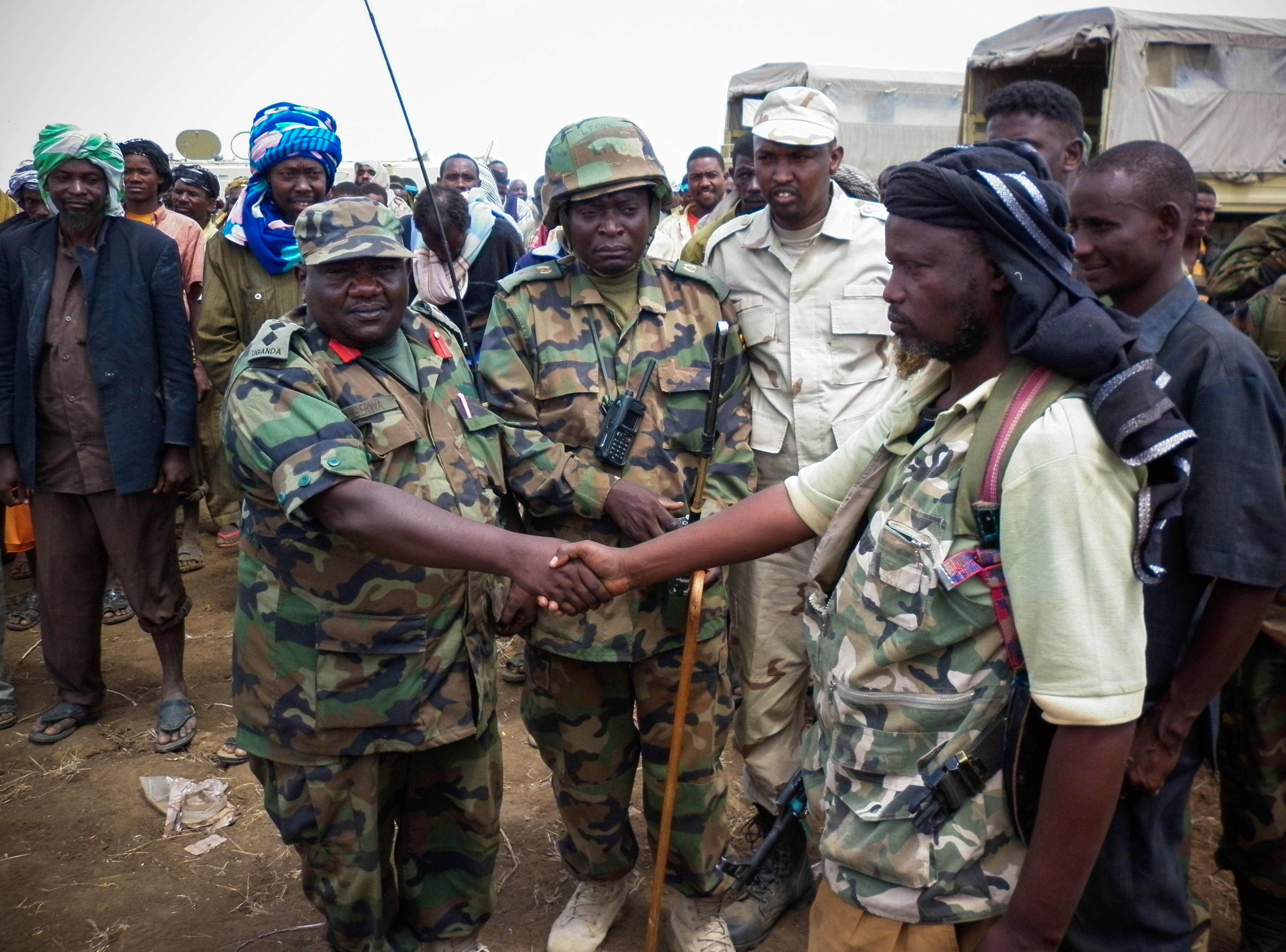 A senior commanding officer of the African Union Mission in Somalia (AMISOM) shakes hands with a commander of the Al Qaeda-affiliated militant group Al Shabaab after more than 200 fighters gave themselves up to AMISOM forces of the in Garsale, approximately 10km from the town of Jowhar, 80km north of the capital Mogadishu 22 September 2012. The militants disengaged following in-fighting between militants in the region in which 8 Al Shabaab were killed, including 2 senior commanders. The former fighters were peacefully taken into AMISOM's protection handing in over 80 weapons in the process, in a further indication that the once-feared militant group is now divided and being defeated across Somalia. Deputy Force Commander of AMISOM Operations, Brigadier Michael Ondoga said a number of militants have contacted the AU force indicating their wish to cease fighting and that they their safety is assured if they give themselves up peacefully to AMISOM forces. AU-UN IST PHOTO / ABUKAR ALBADRI.